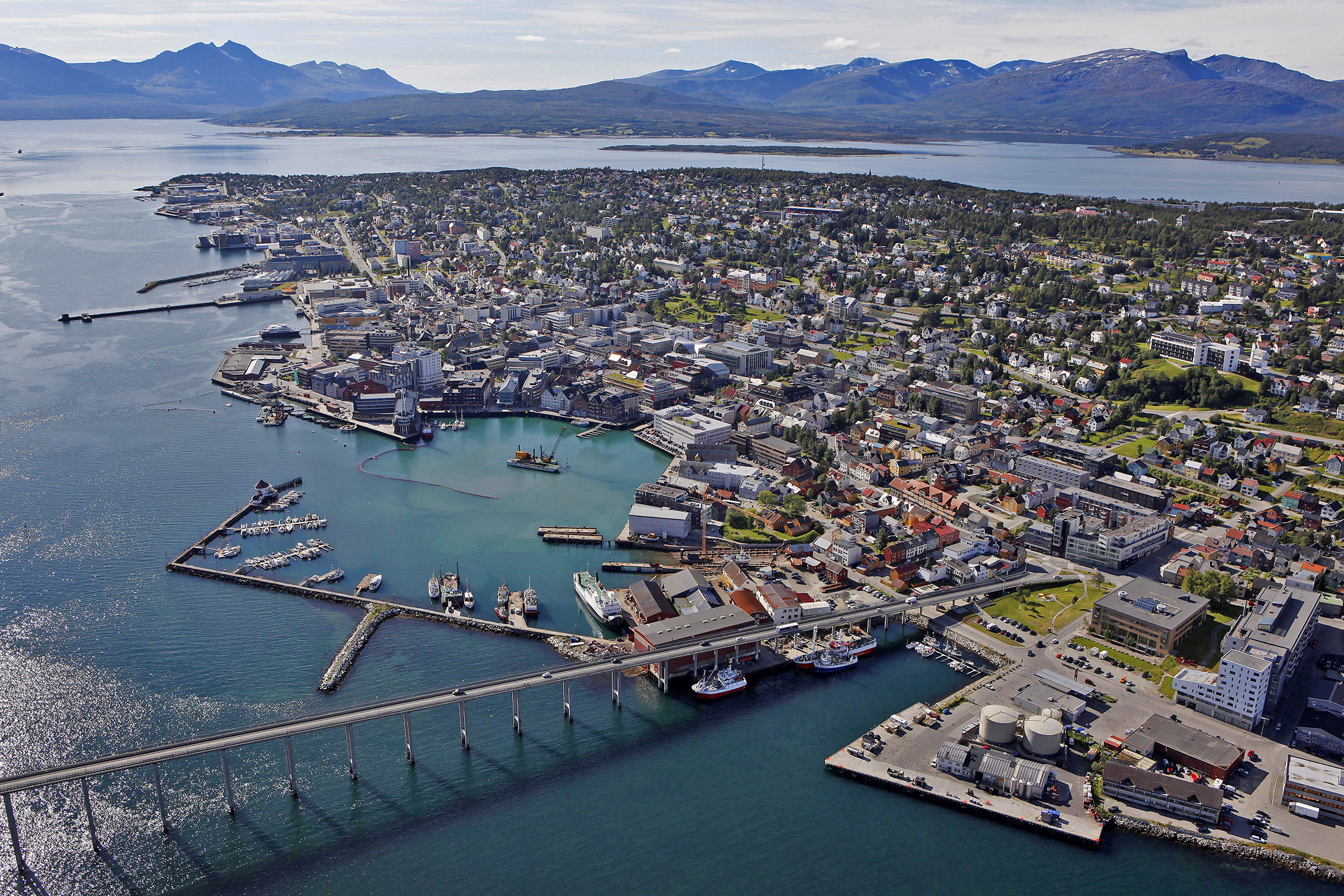 Downtown Tromsø Bildet kan fritt lastes ned. Vennligst krediter fotograf. --- This image may be downloaded for commercial and non-commercial use. Please credit the photographer. Photo Credit: Yngve Olsen Sæbbe.